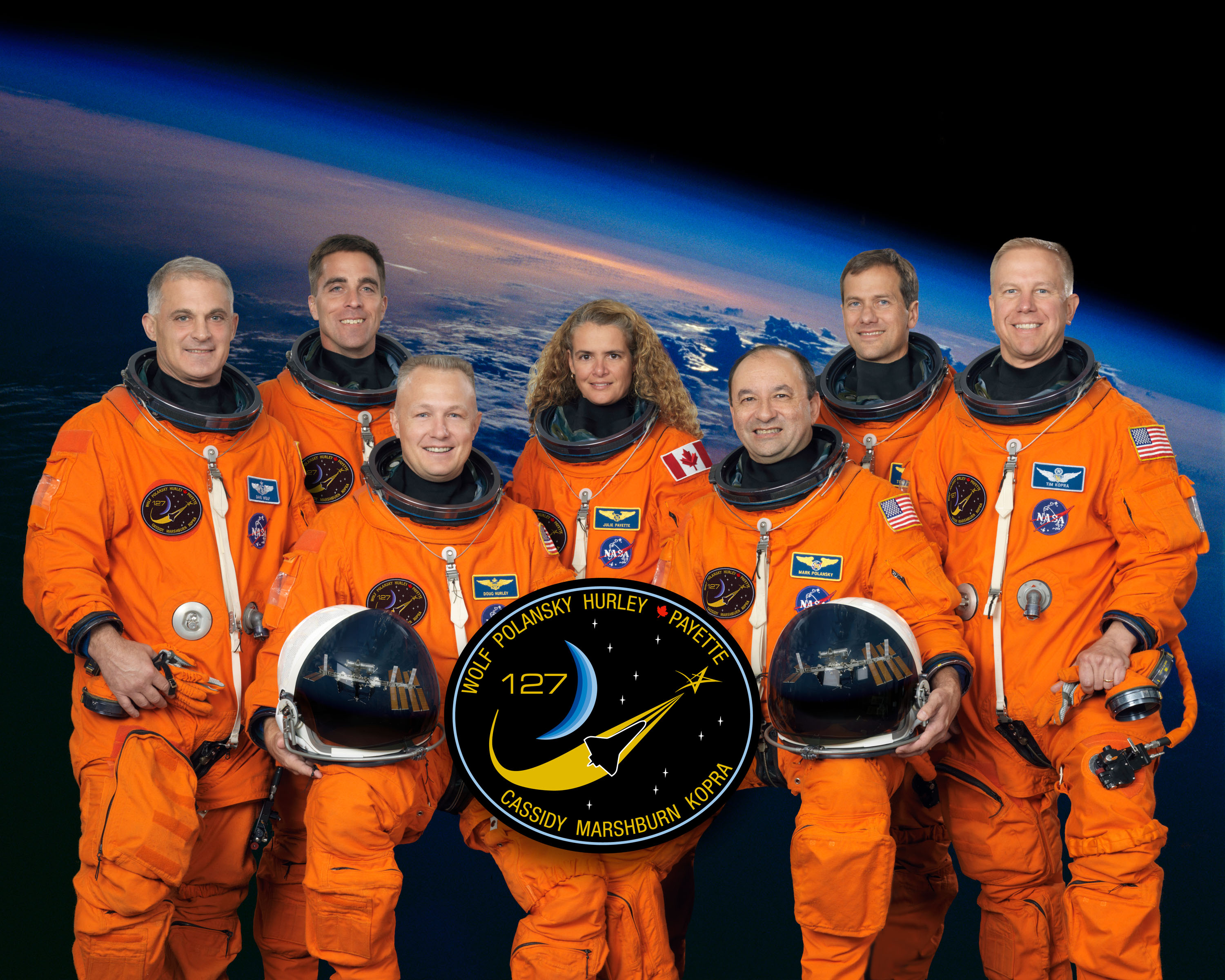 Attired in training versions of their shuttle launch and entry suits, these seven astronauts take a break from training to pose for the STS-127 crew portrait. Pictured on the front row are astronauts Mark Polansky (right), commander, and Doug Hurley, pilot. Remaining crewmembers, pictured from left to right, are astronauts Dave Wolf, Christopher Cassidy, Canadian Space Agency's Julie Payette, Tom Marshburn and Tim Kopra, all mission specialists. Kopra is scheduled to join Expedition 19 as flight engineer after launching to the International Space Station with the STS-127 crew.